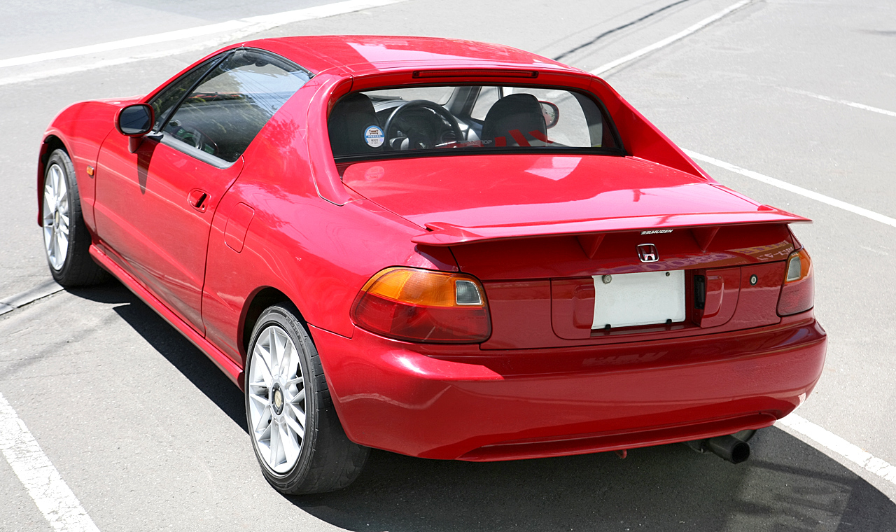 Honda CR-X del Sol